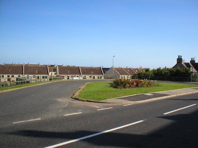 High Street, St.Combs The bus turning circle on the High Street, St.Combs.